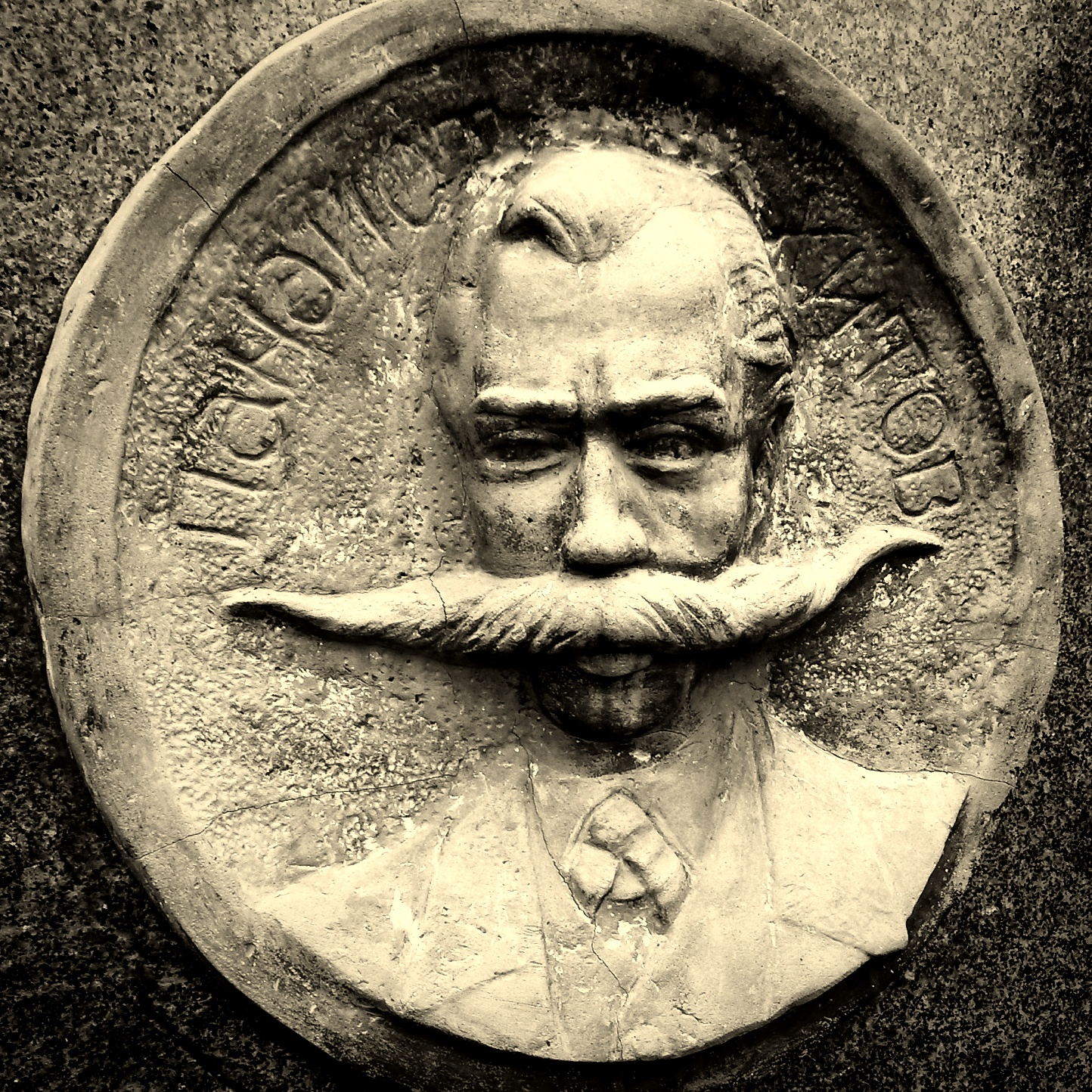 2014-06-25 in Rousse.